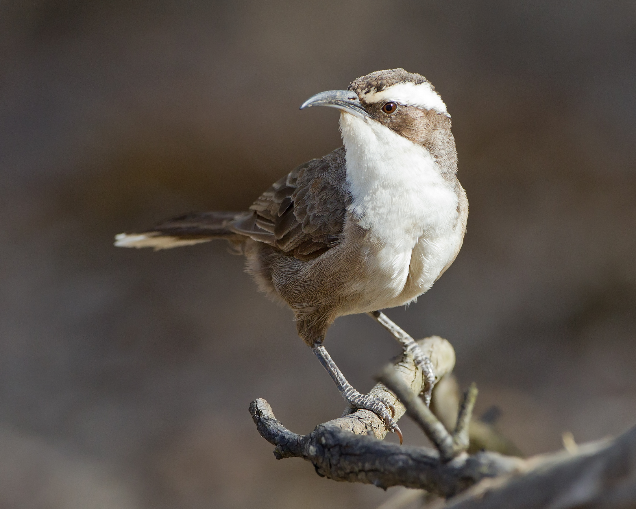 White-browed Babbler (Pomatostomus superciliosus), Chiltern, Victoria, Australia